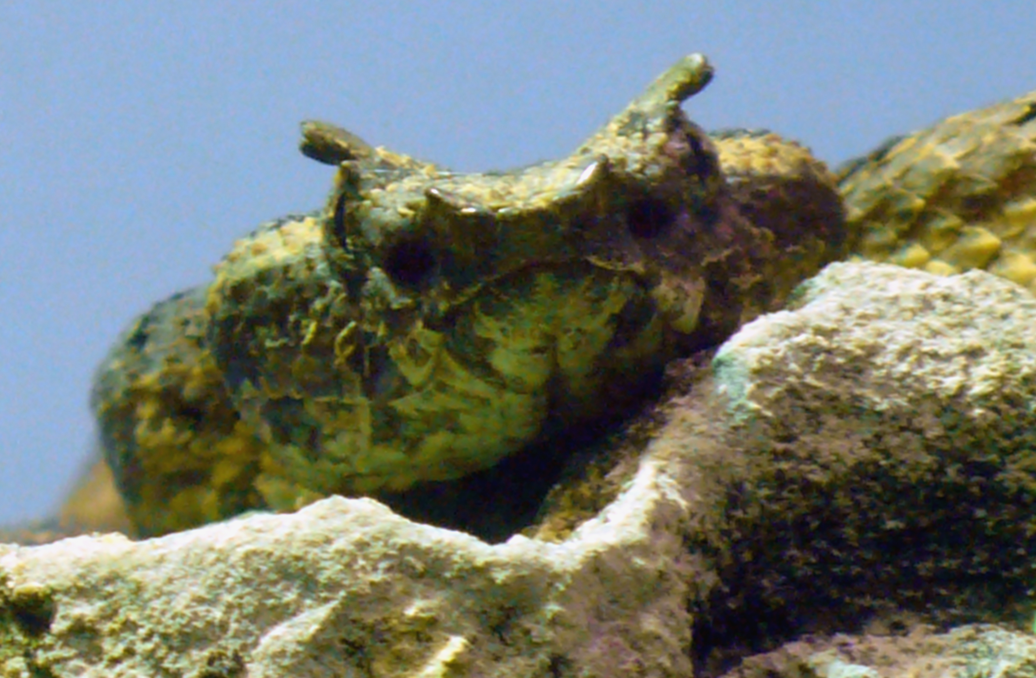 Fan-Si-Pan horned pitviper (Protobothrops cornutus, previously Trimeresurus cornutus)